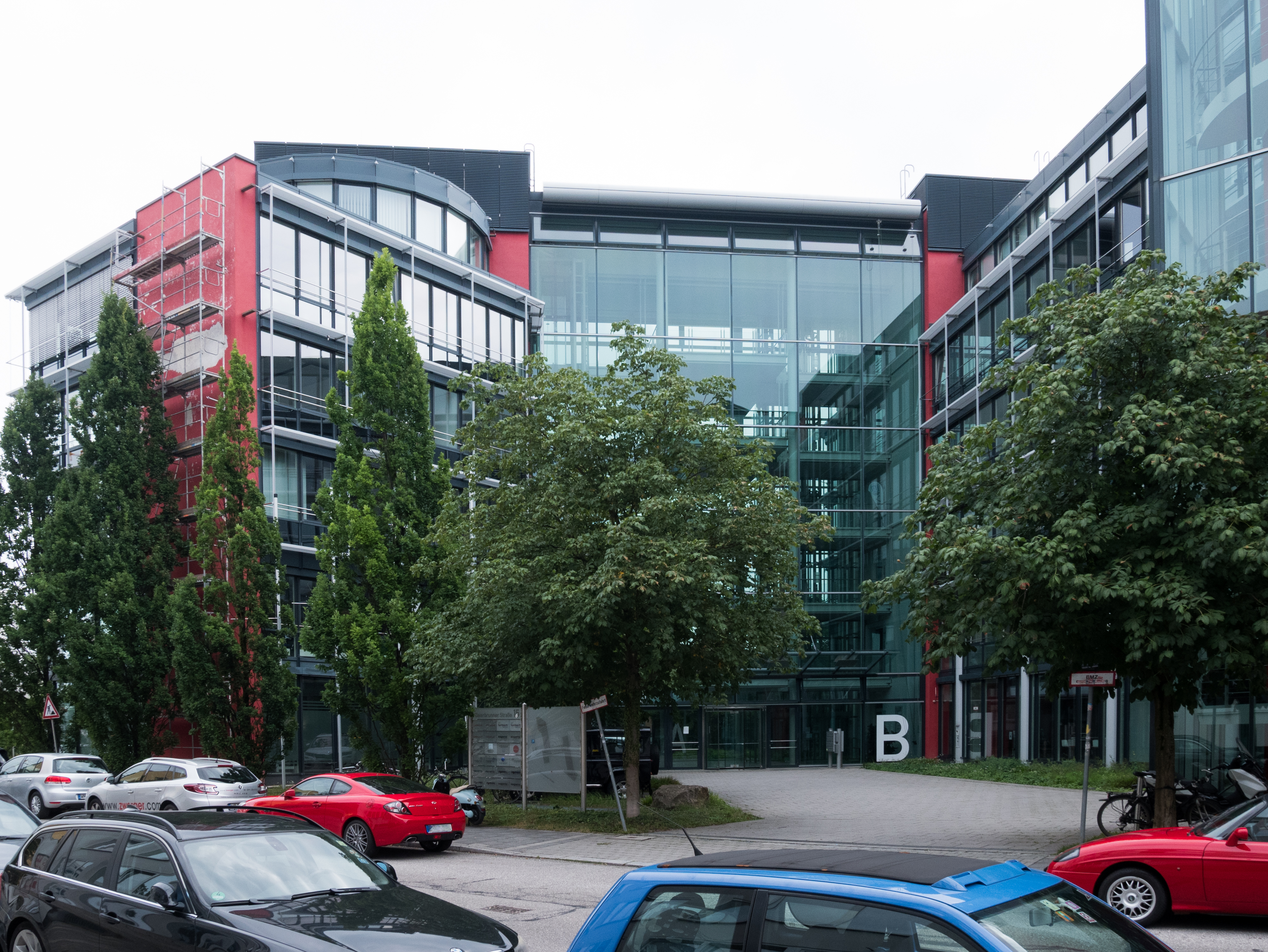 FinFisher GmbH and Elaman GmbH office building, view of the main entrance